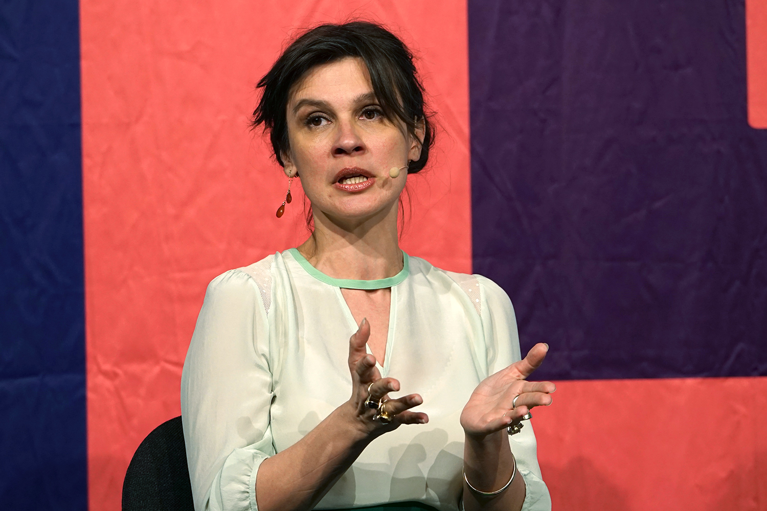 Birgithe Kosovic - Danish writer and journalist - at the historic event "Historiske Dage 2019", Copenhagen, Denmark